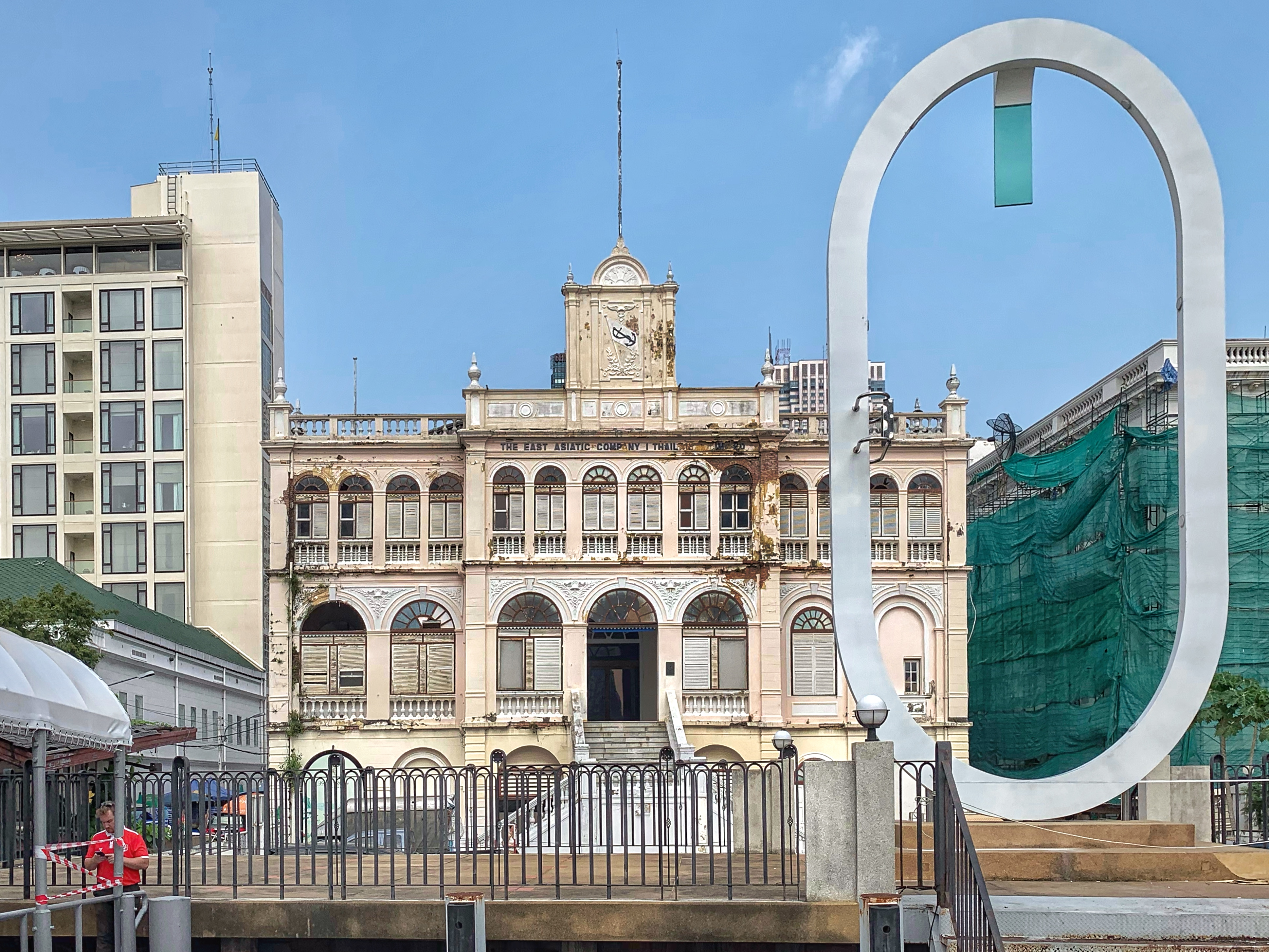 East Asiatic Company Building